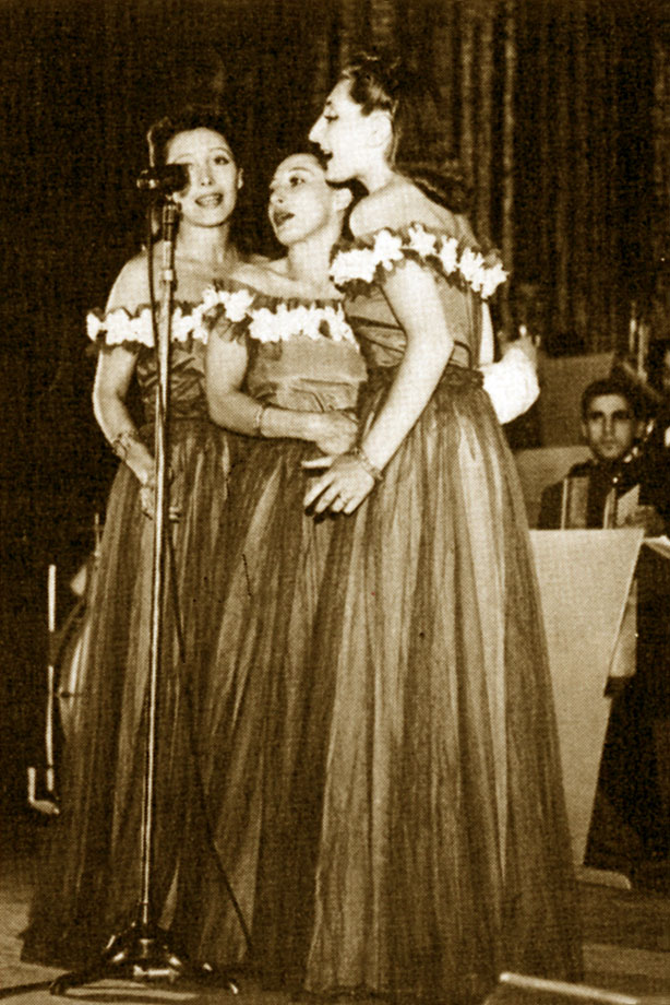 Trio Lescano in 1942